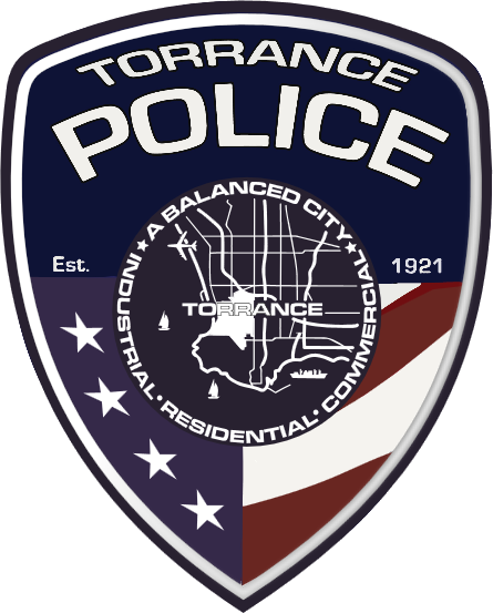 Torrance Police patch 2017